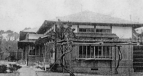 Kuretake-Ryo